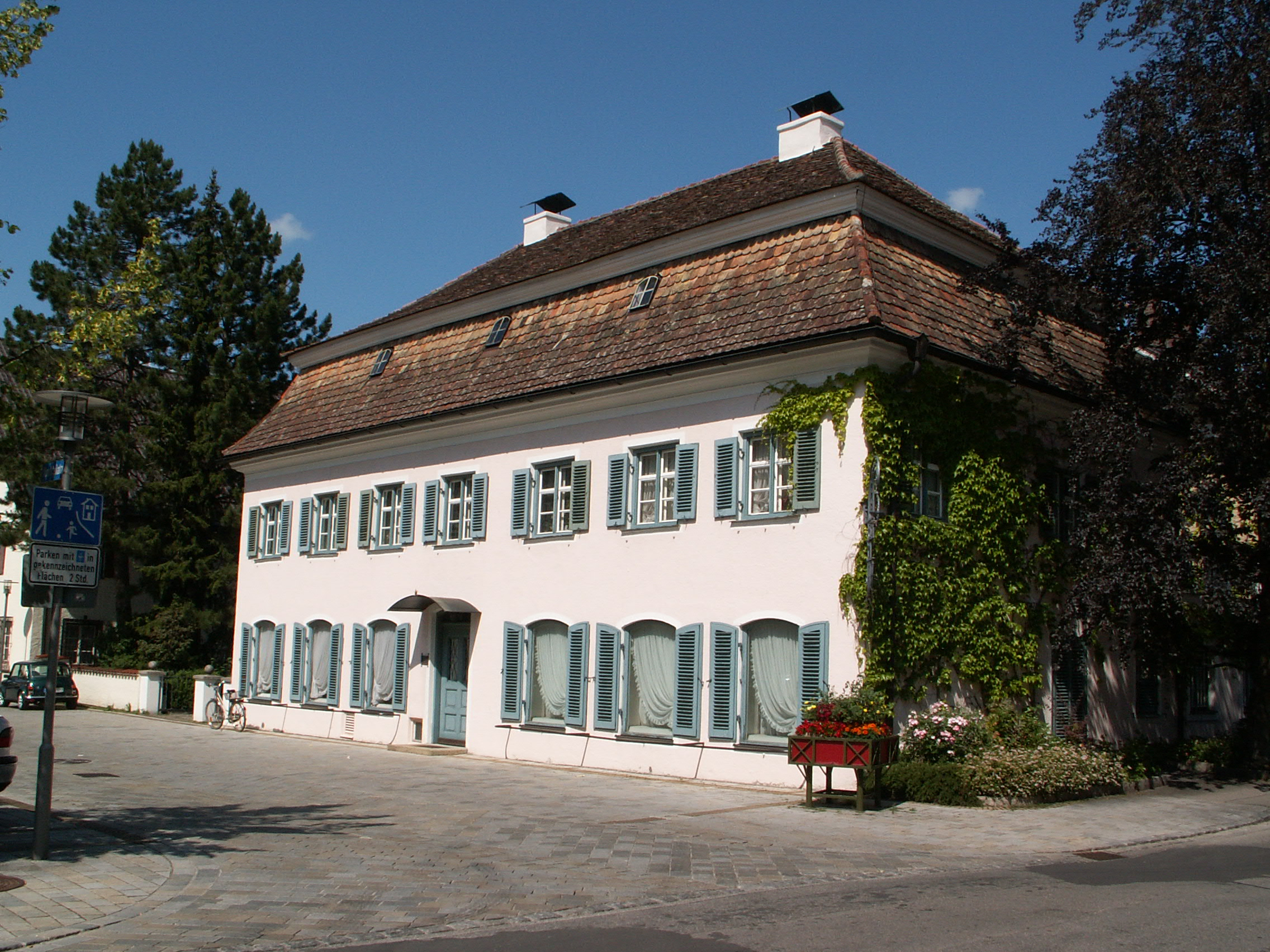 Ehem. Asmus'sche Stadtapotheke Marktoberdorf